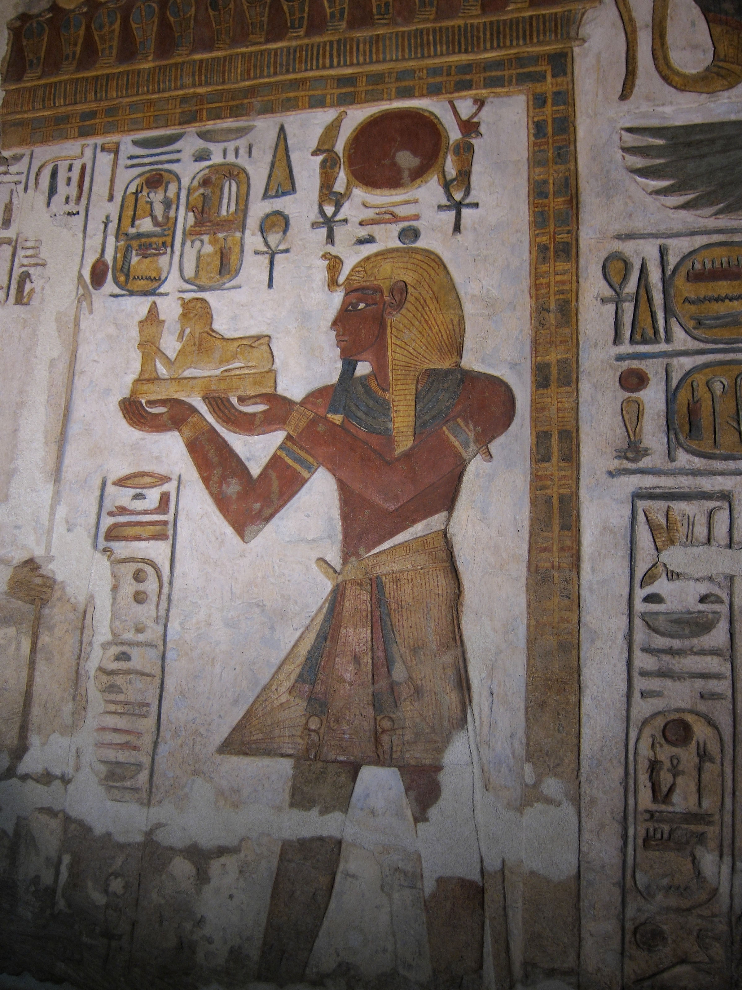 Relief from the Sanctuary of Khonsu Temple depicting Rameses III